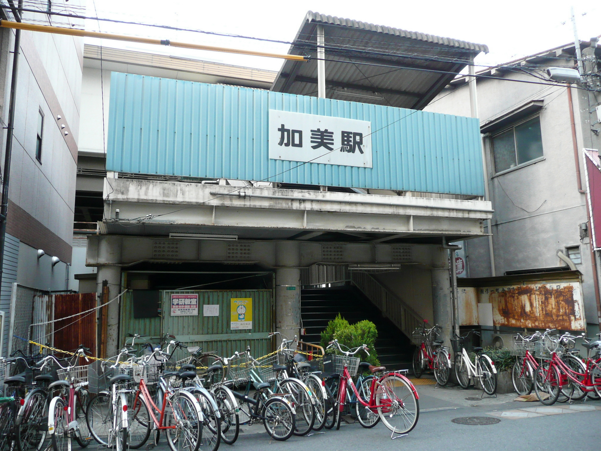 West Japan Railway,Kansai Main Line,Kami Station south entrance. / 関西本線加美駅南口